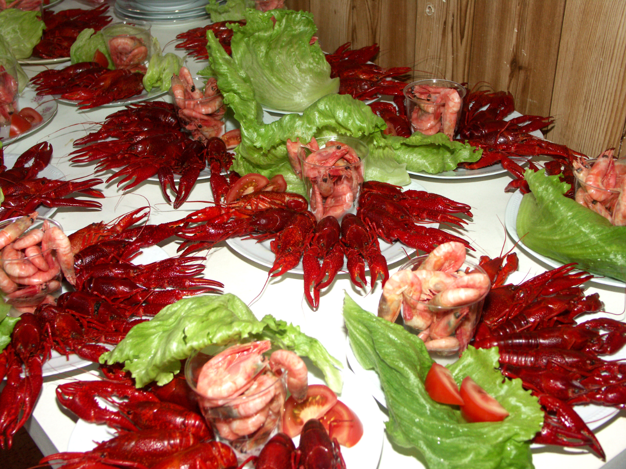 Crayfish and shrimp served for a traditional Swedish kräftskiva (crayfish feast).